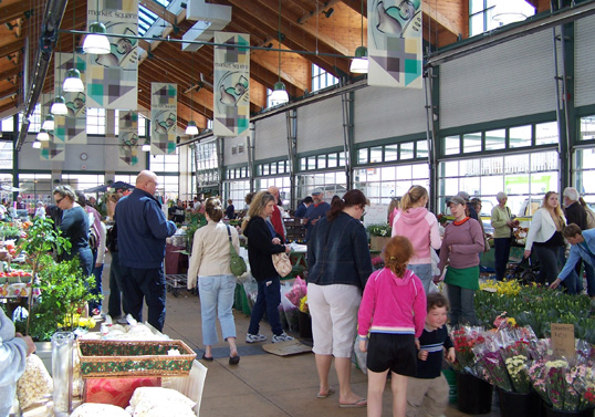 Taken by User:Trappy, April 2006. A photograph of the St. Catharines, Ontario, downtown farmers' market. I personally took this photo and release it to the public domain.